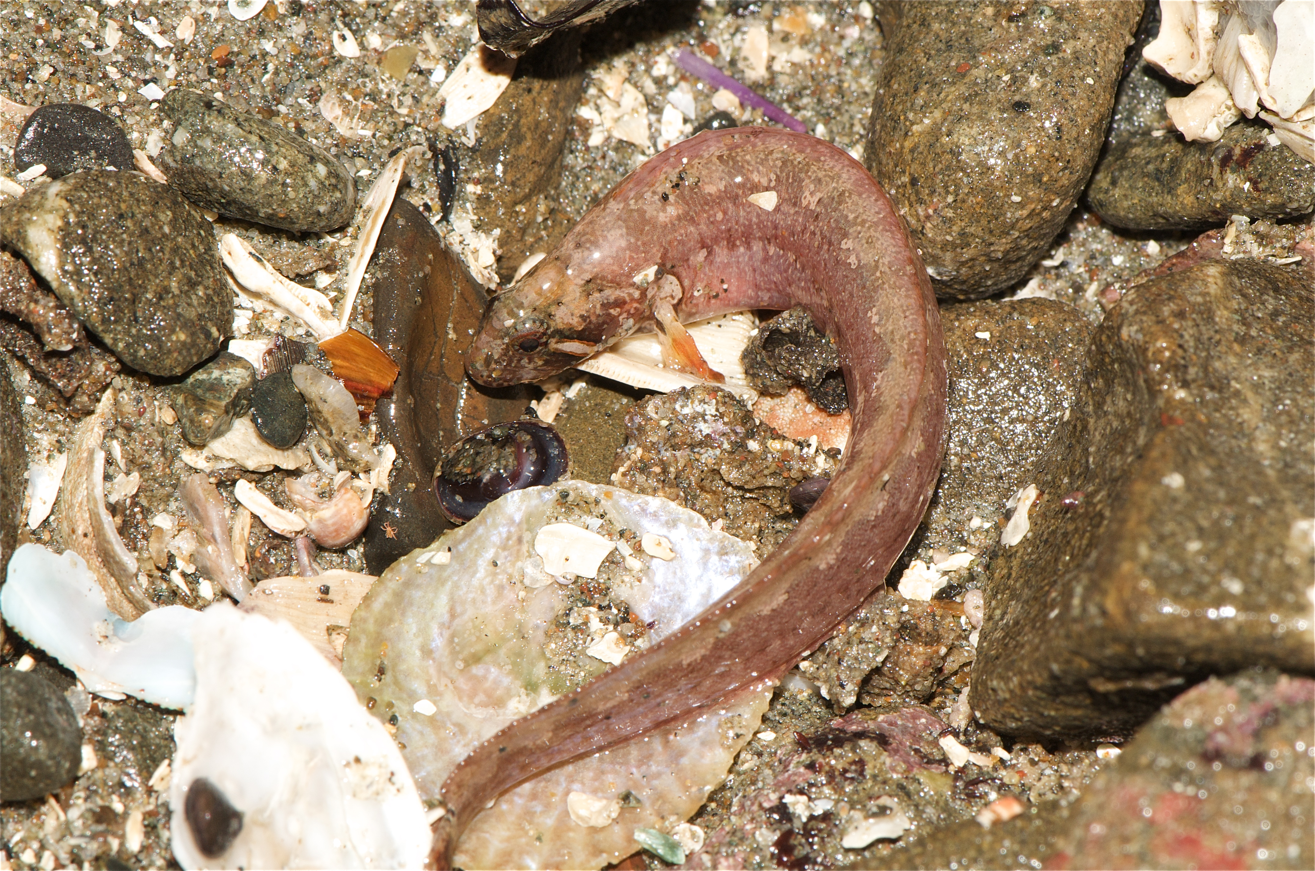 Pholis ornata